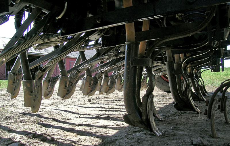 Drill coulters on a combined grain and fertilizer sowing machine: Fertilizer coulters (front) and grain coulters (rear).